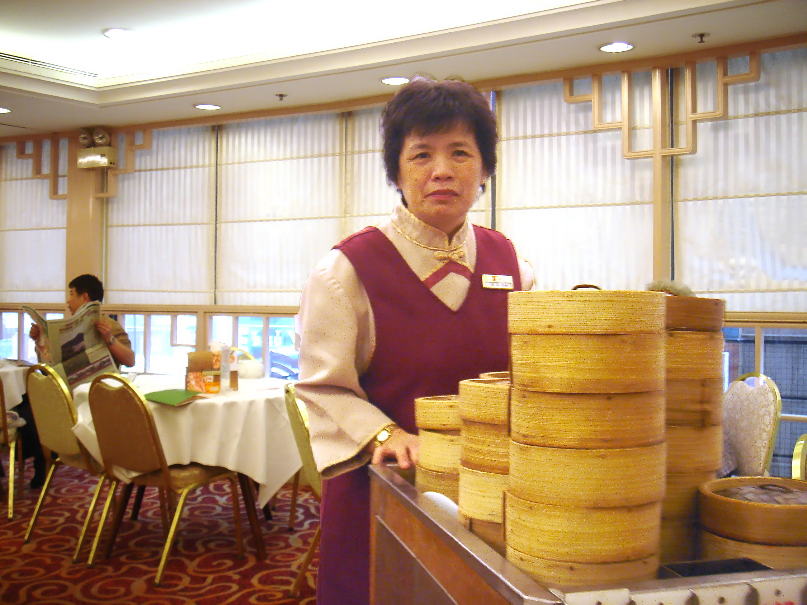 Lady serving Dim Sum in a restaurant in Hong Kong.